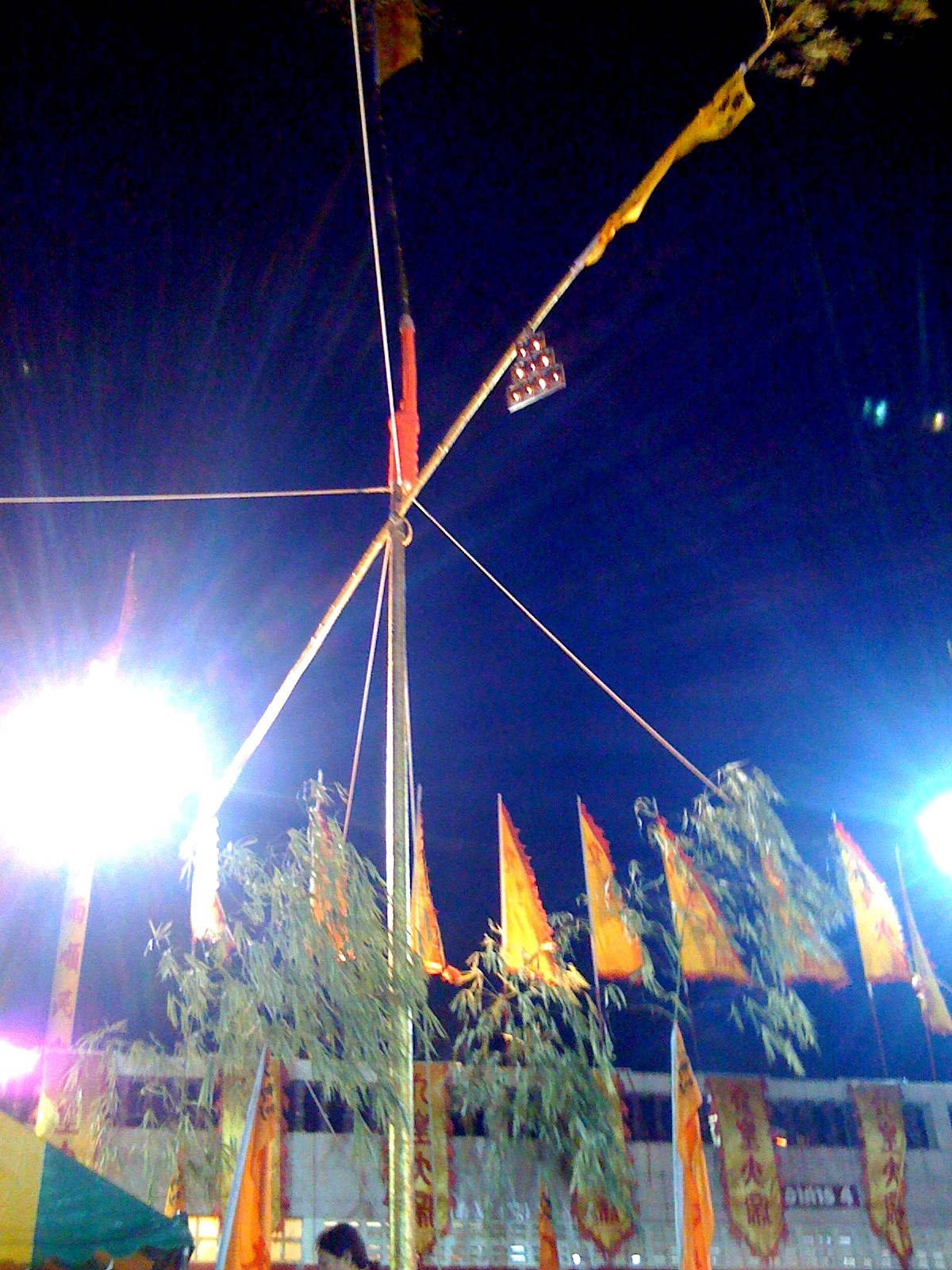 Jui Tui Shrine